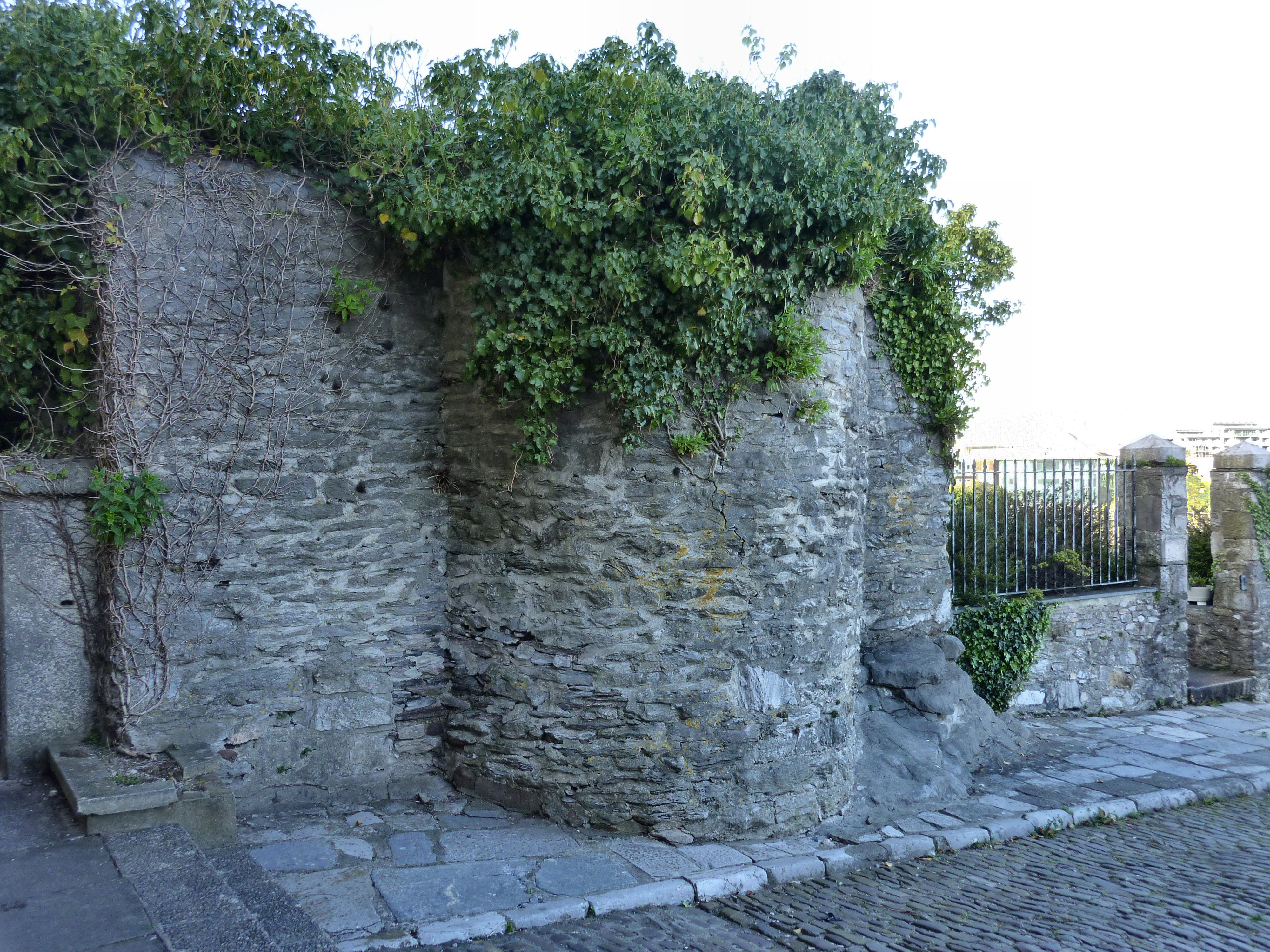 The only remaining part of Plymouth Castle, at the Barbican, Plymouth, Devon, England. The remains consist of a short length of thick rubble wall 3 metres high, with a central semicircular projection, the remains of a turret of an outer gatehouse. It is a Grade II listed building and a Scheduled Ancient Monument.